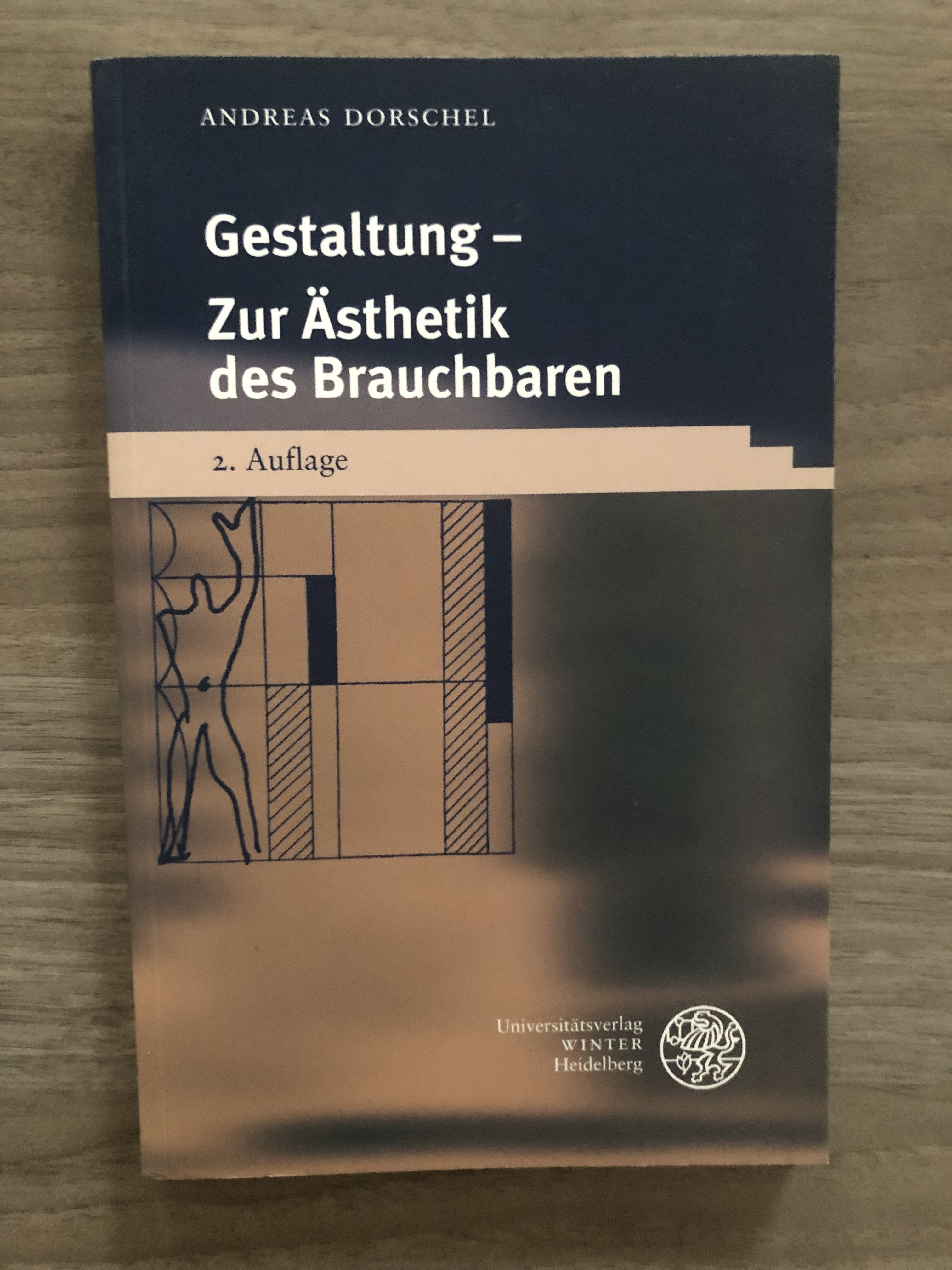 Andreas Dorschel, Gestaltung (2003)